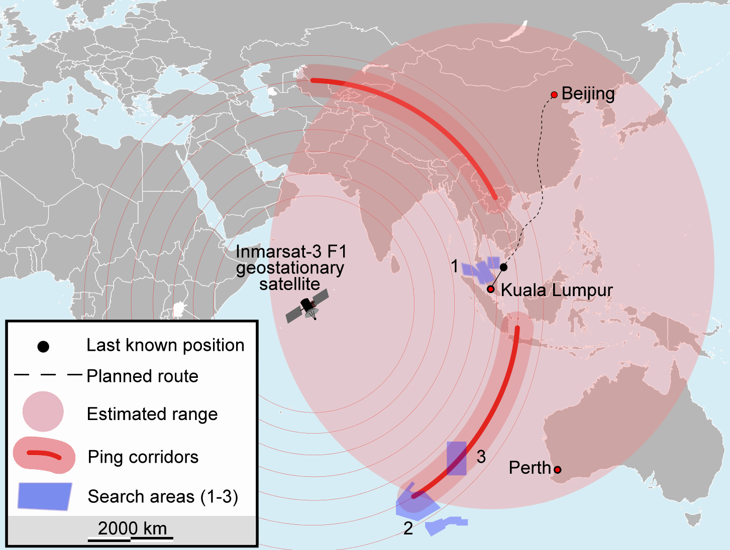 Map of search for MH370. Derived from File:Theoretical Search Area MH370.svg